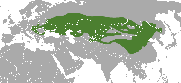 Steppe Polecat (Mustela eversmanii) range